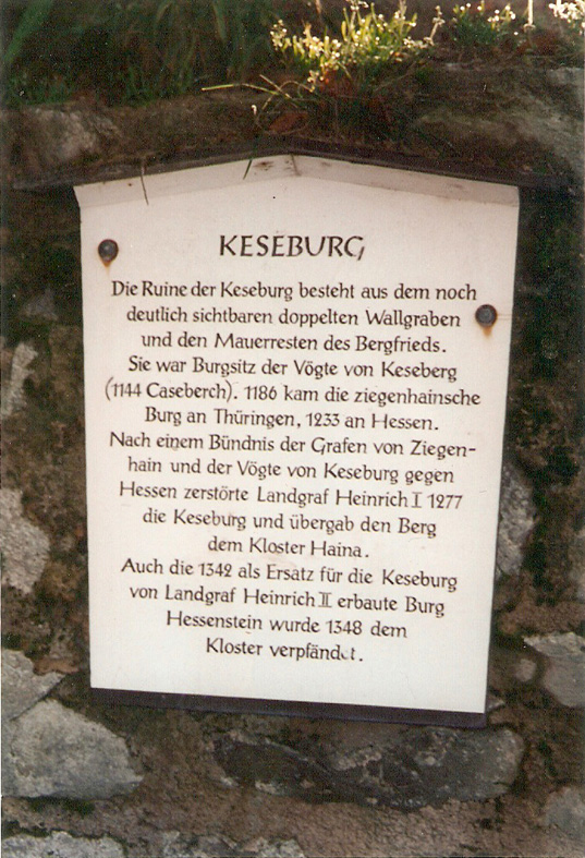 Keseberg